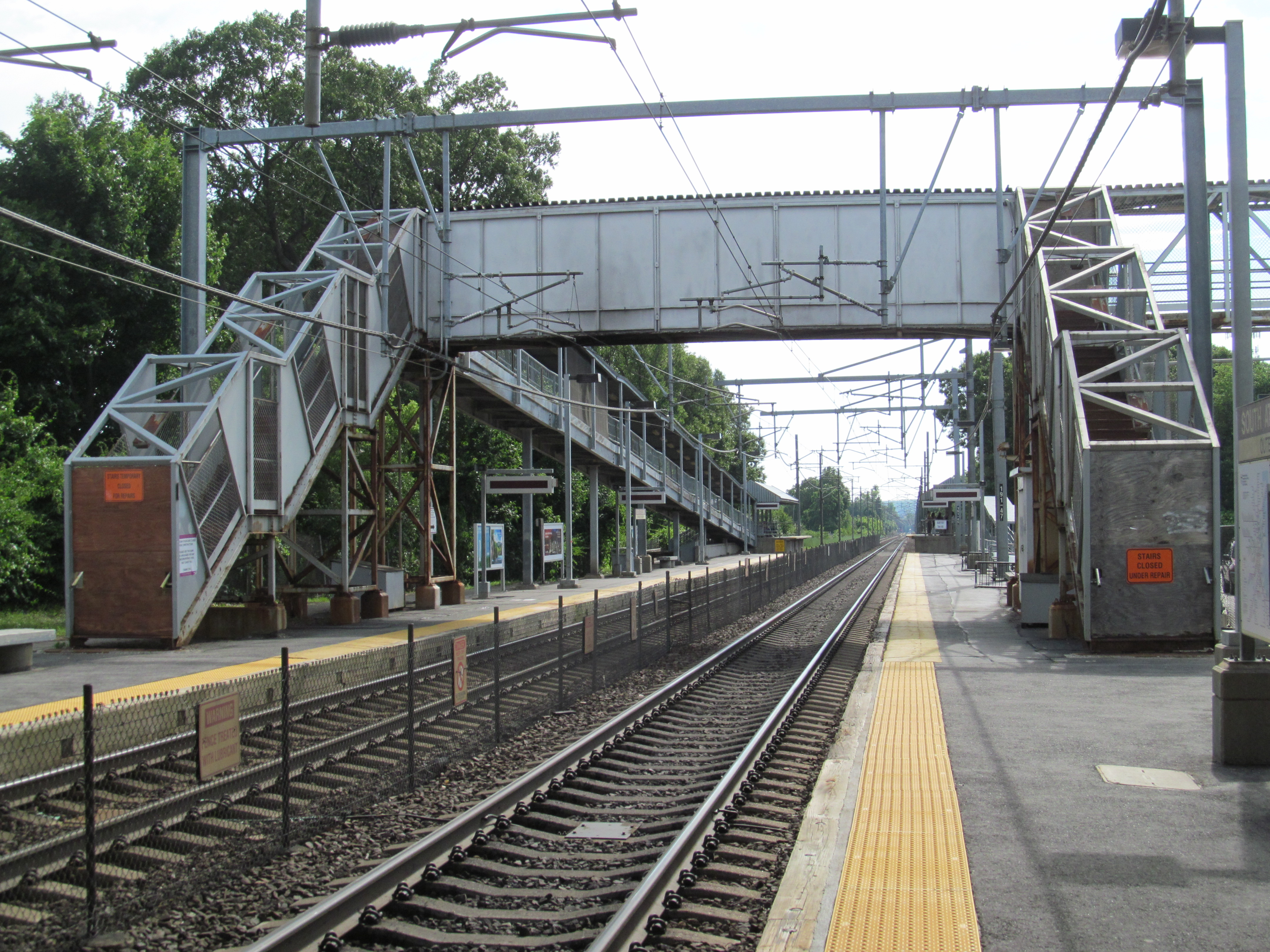 The footbridge at South Attleboro station in June 2013. Both staircases to the platforms were closed due to deterioration at that time.